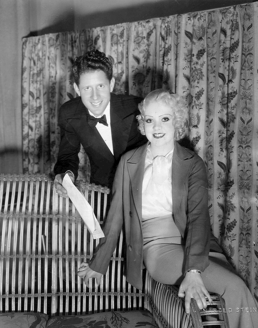 Photo of Rudy Vallee and Alice Faye from the Fleischmann's radio show, 1933. The photo has no copyright markings on it as can be seen in the links above.